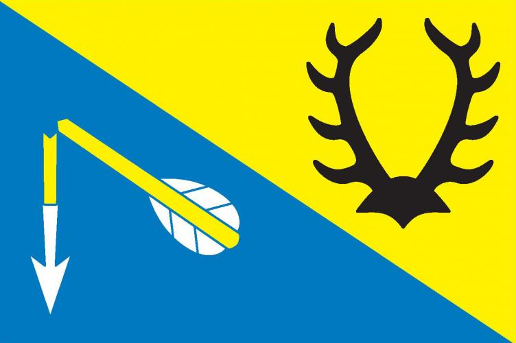 Municipal flag of Krašovice village, Plzeň-North District, Czech Republic.